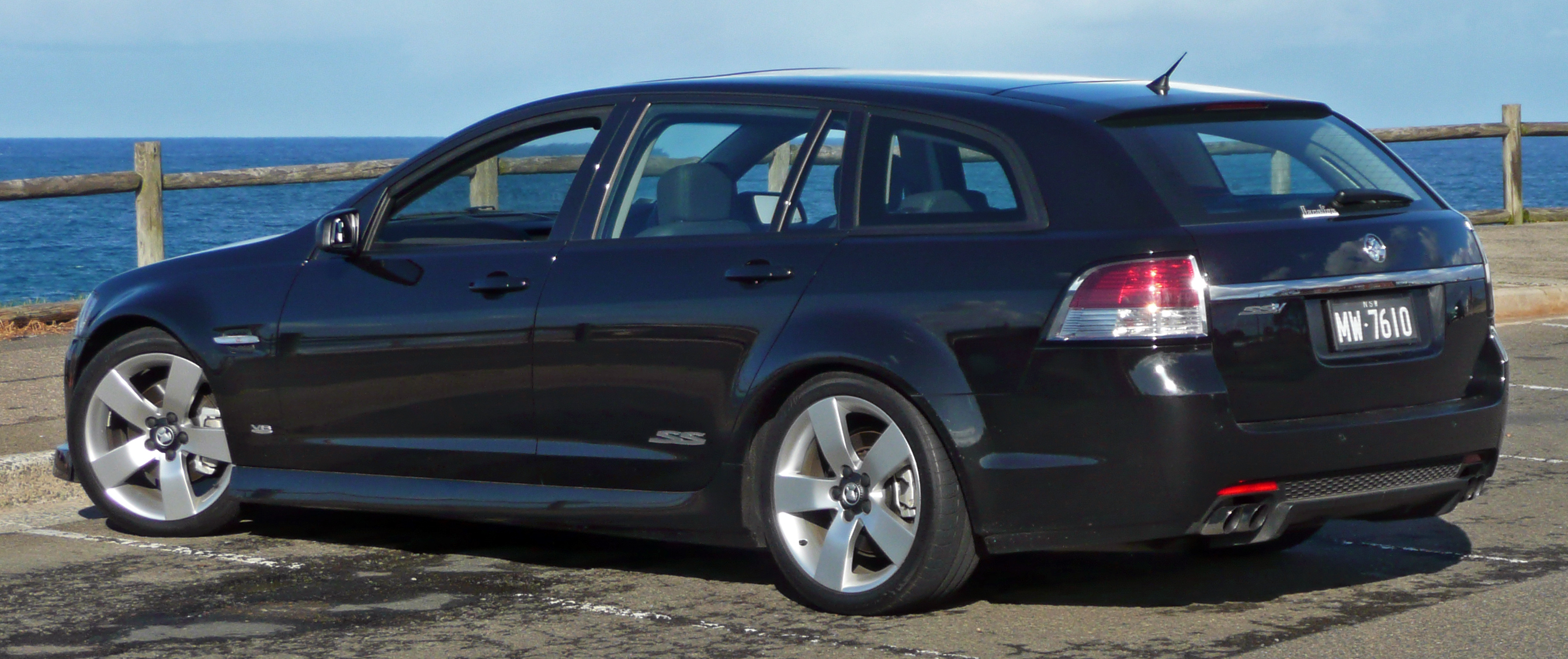 2008–2010 Holden Commodore (VE) SS V Sportwagon. Photographed in Cronulla, New South Wales, Australia.